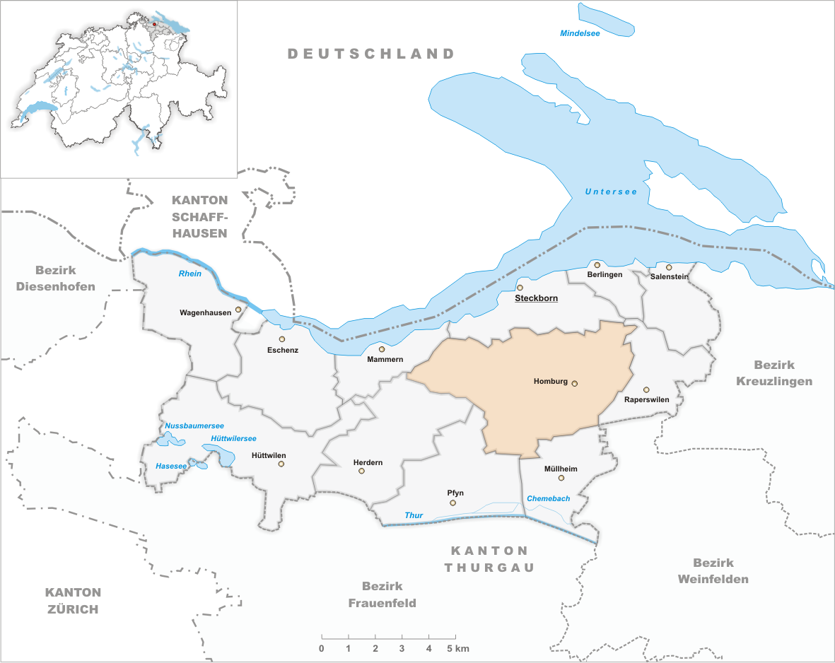 Municipality Homburg